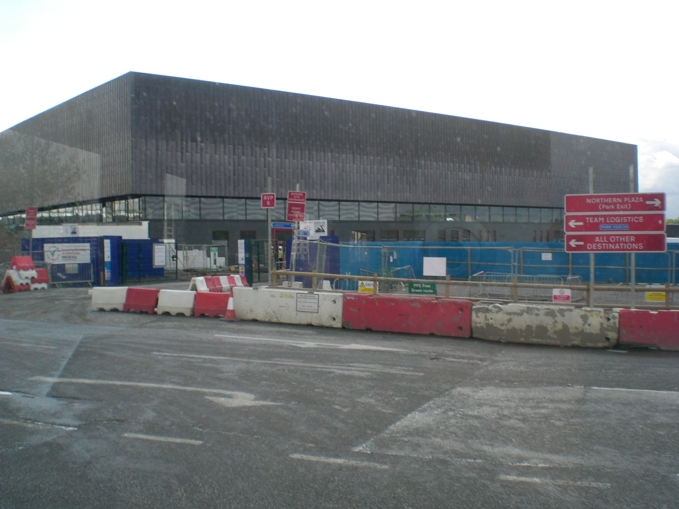 Construction of Olympic Park, London — (June 2011). Construction of the Copper Box — a copper-faced arena for handball, fencing, and goalball, with 7,000-seats. After the games it will be used as a multi-sport arena, as well as for culture and business events.